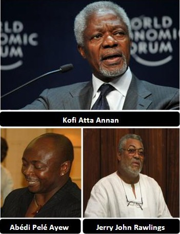 Notable Ghanaians: Kofi Atta Annan, the seventh general of the United Nations. Abedi Pele, three-time African Footballer of the Year and Ghanaian association football player. Jerry John Rawlings, the first president of the 4th Republic of Ghana.